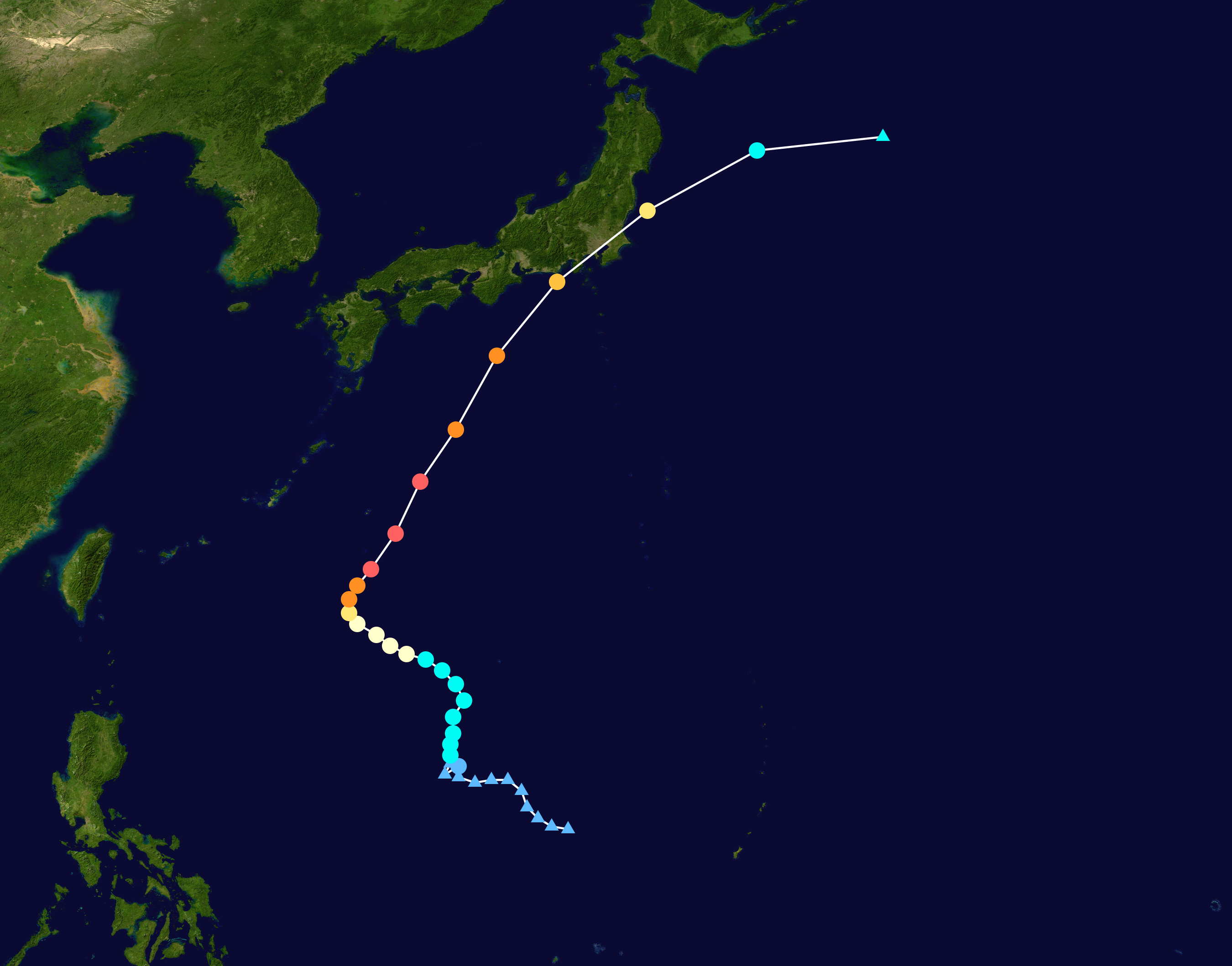 Typhoon Ma-on (2004) track. Uses the color scheme from the Saffir-Simpson Hurricane Scale.